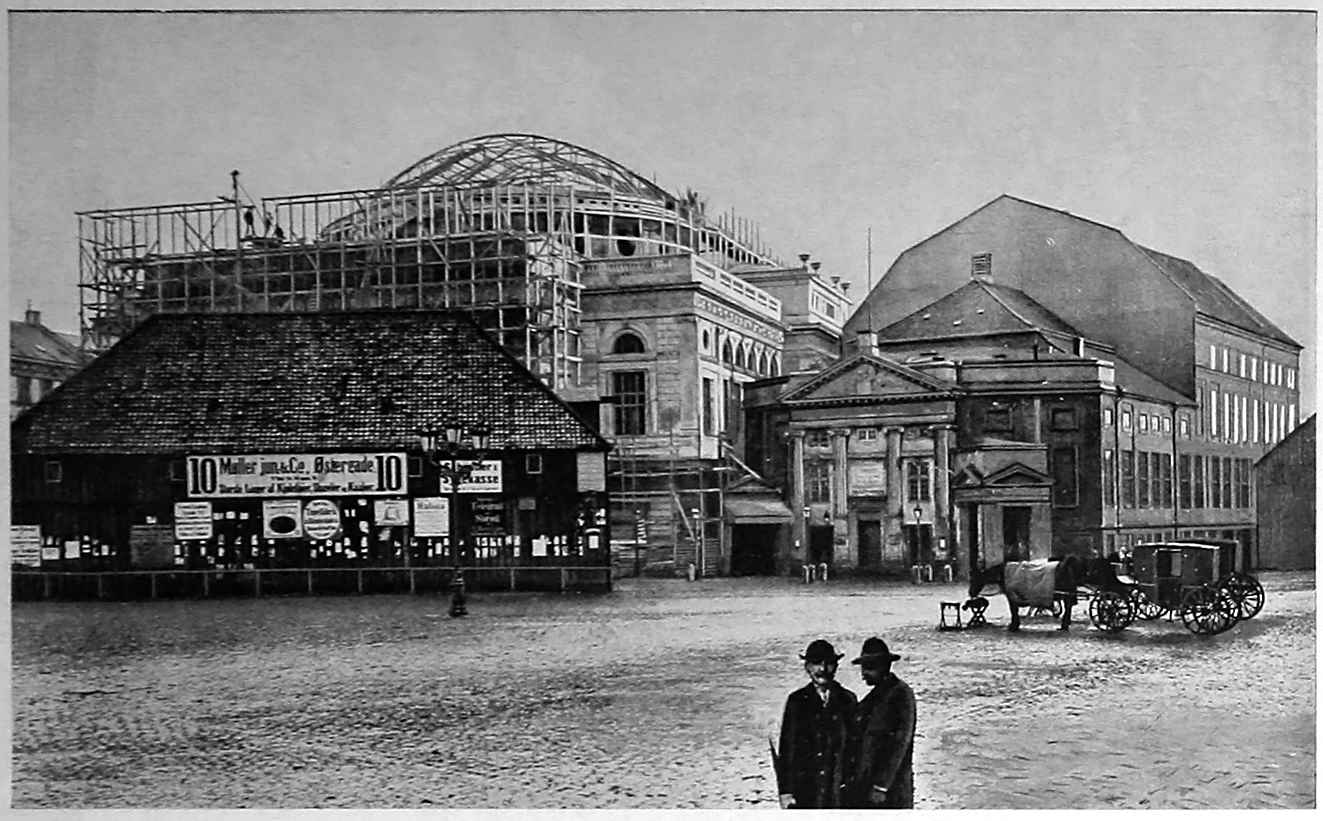 Royal Danish Theatre, 1873. The new theatre (to the left) under construction.